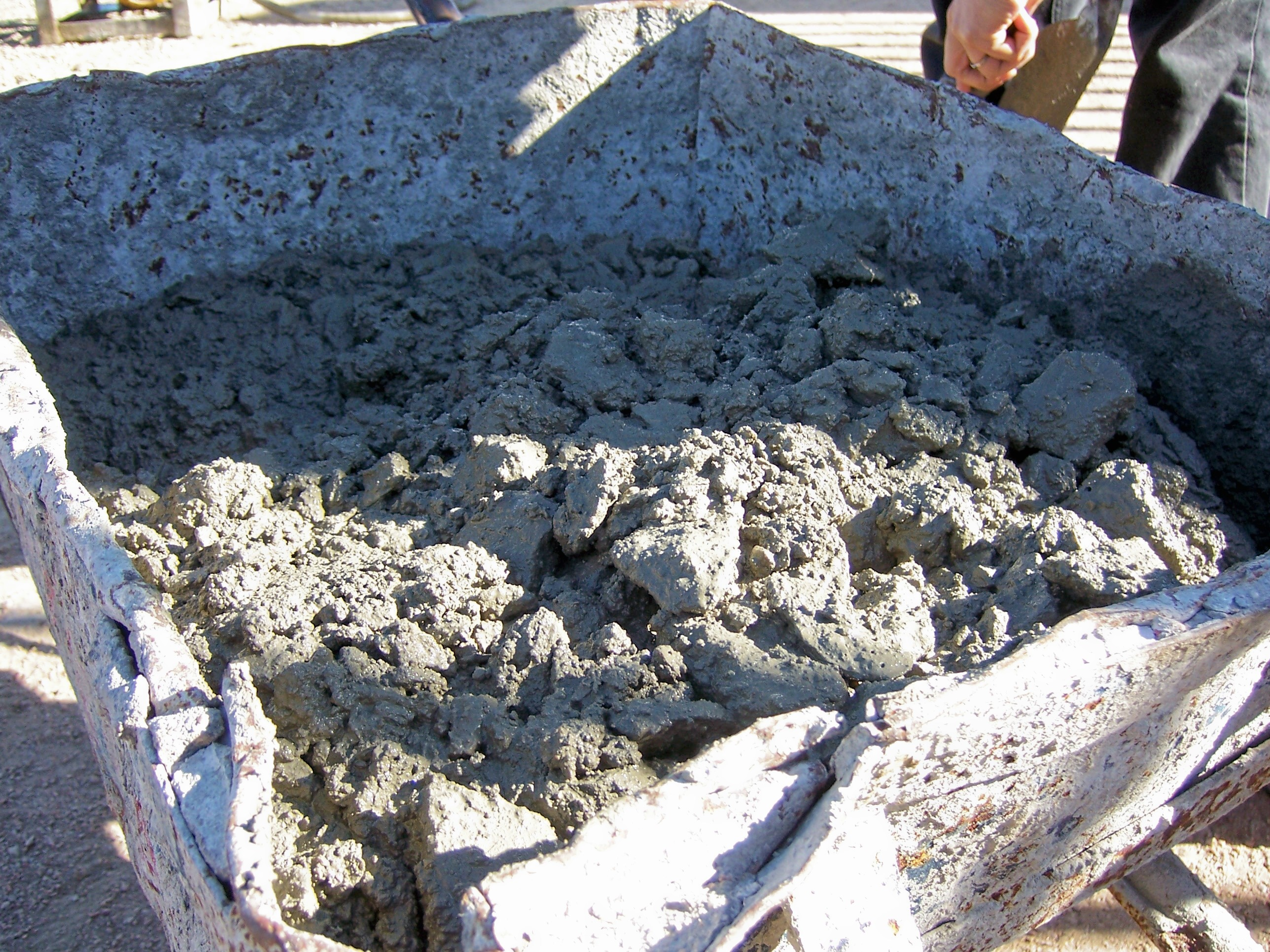 Fresh concrete in a wheelbarrow for quality control